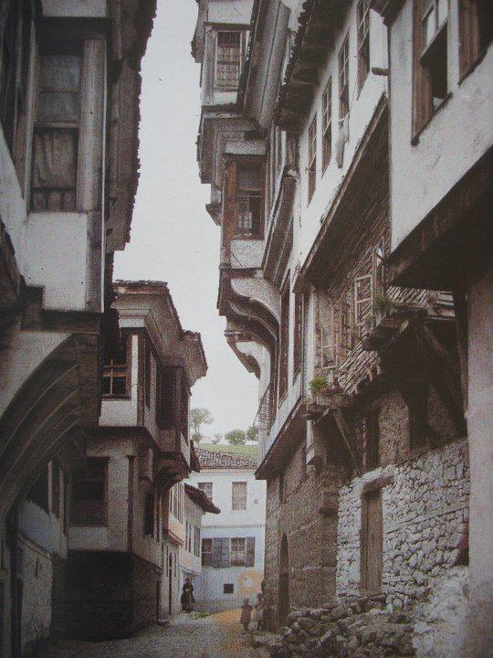 Autochrome photograph of street in Ohrid, Republic of Macedonia in 1913.